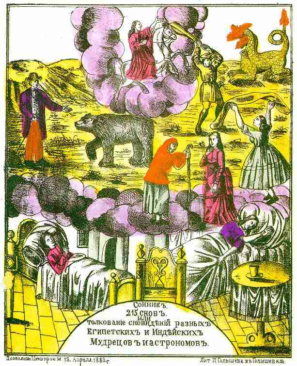 Lubok-style cover of a Russian dream book. The book is solemnly named The Dream-Book, or an Interpretation of Dreams by Sundry Egyptian and Indian Savants and Astronomers.